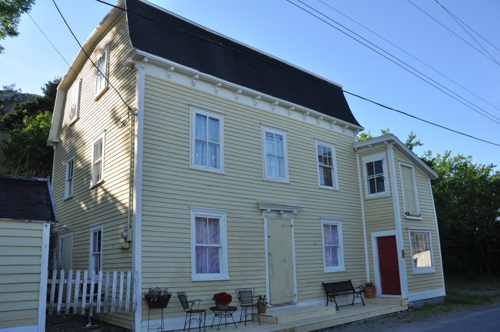 Fowler House, Brigus, Newfoundland.